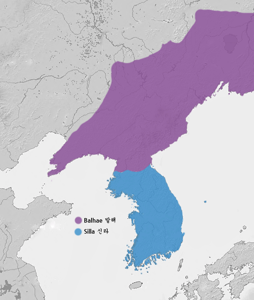 The territory of Balhae, In 830s during the reign of king Seon of Balhae. Territory of Balhae in 830..